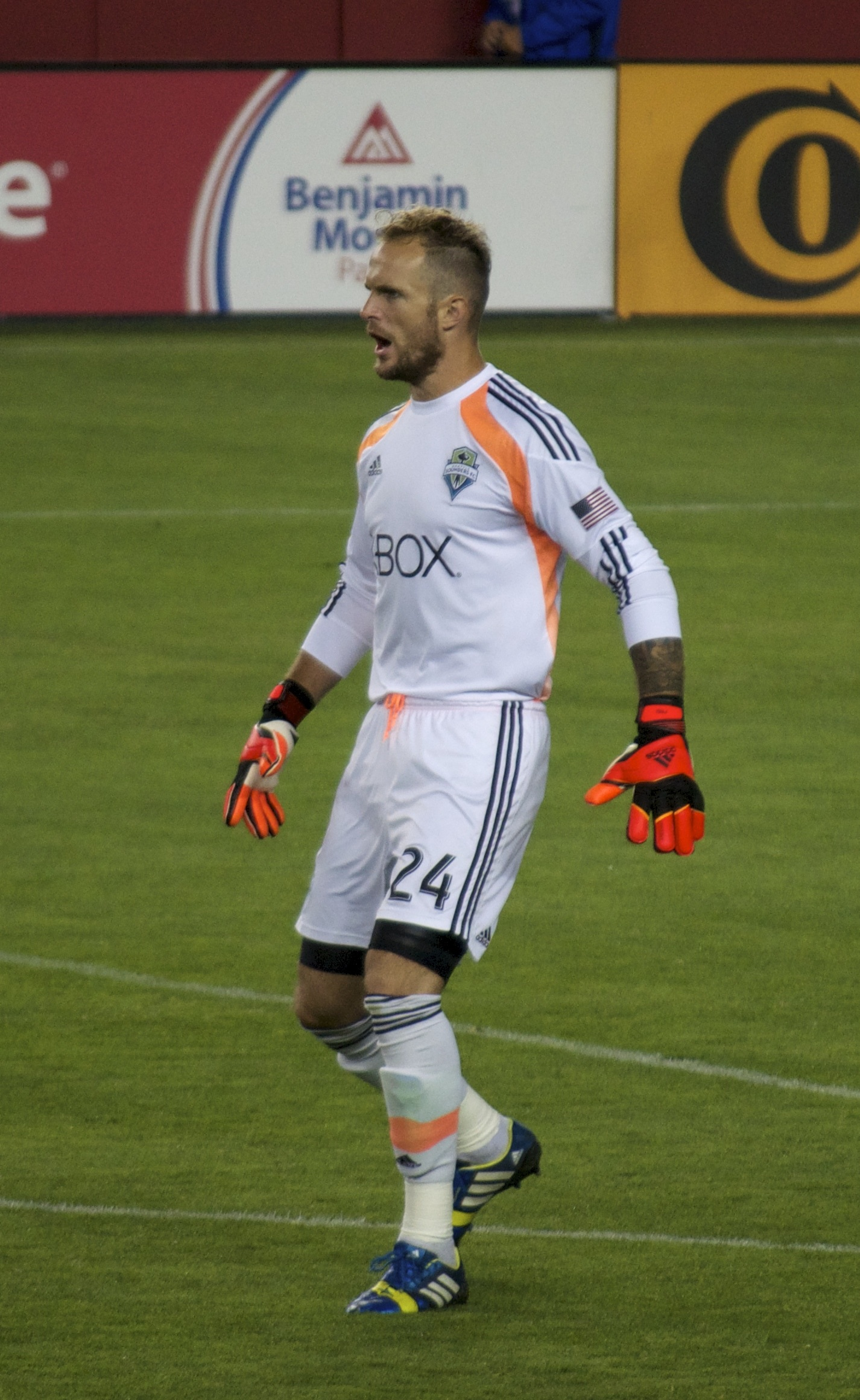 Stefan Frei, Levi Stadium inaugural game, Seattle Sounders vs San Jose Earthquakes, Santa Clara, California